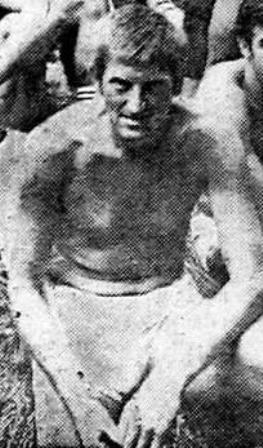 Radivoj Korać